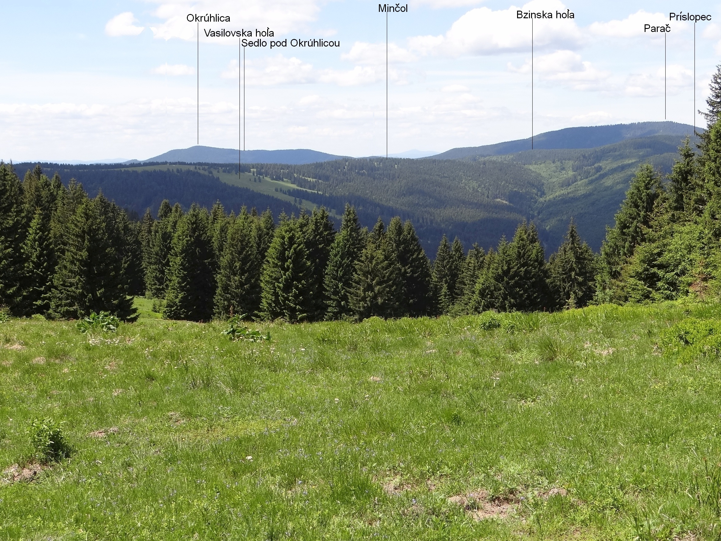 View from Mokradská hoľa